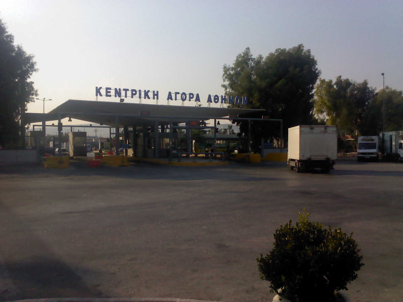 Central Vegetable Market Athenes